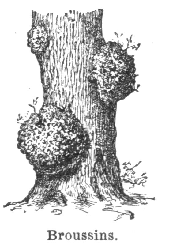 Burr or burl